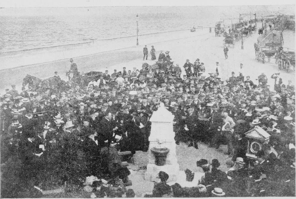 The unveiling of the monument to David "Dawsey" Kewley, Thursday June 8th, 1905.